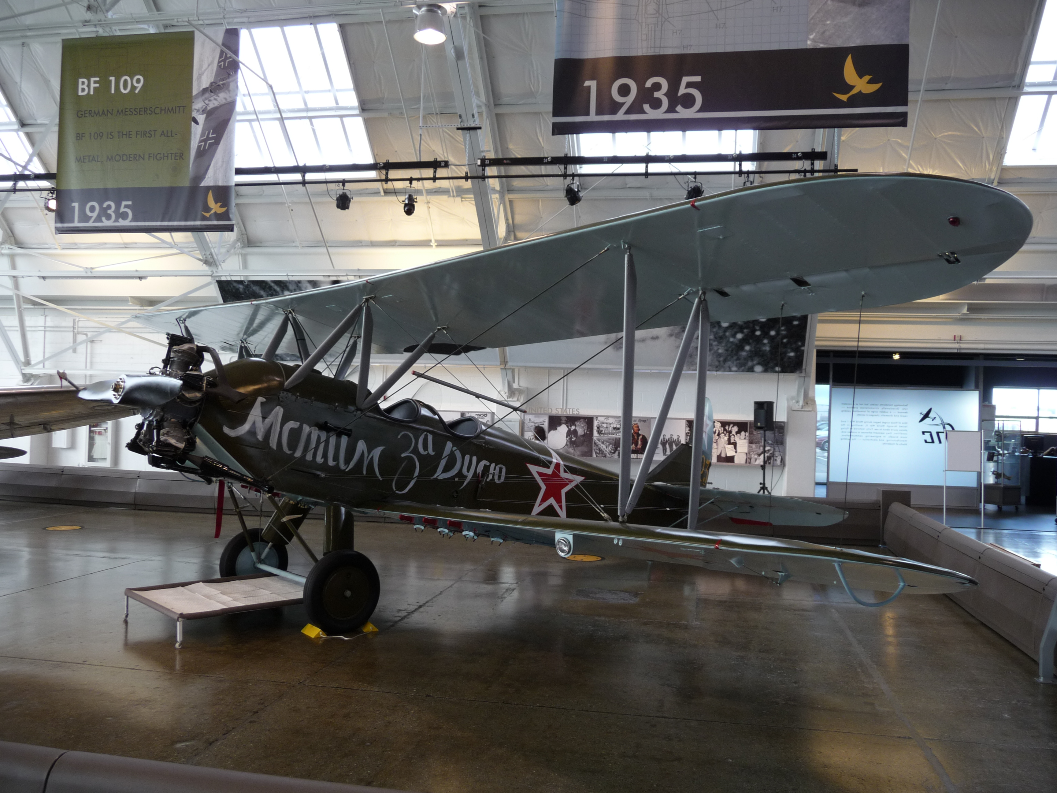 Polikarpov Po-2 of Paul Allen's WWII Flying Heritage Collection